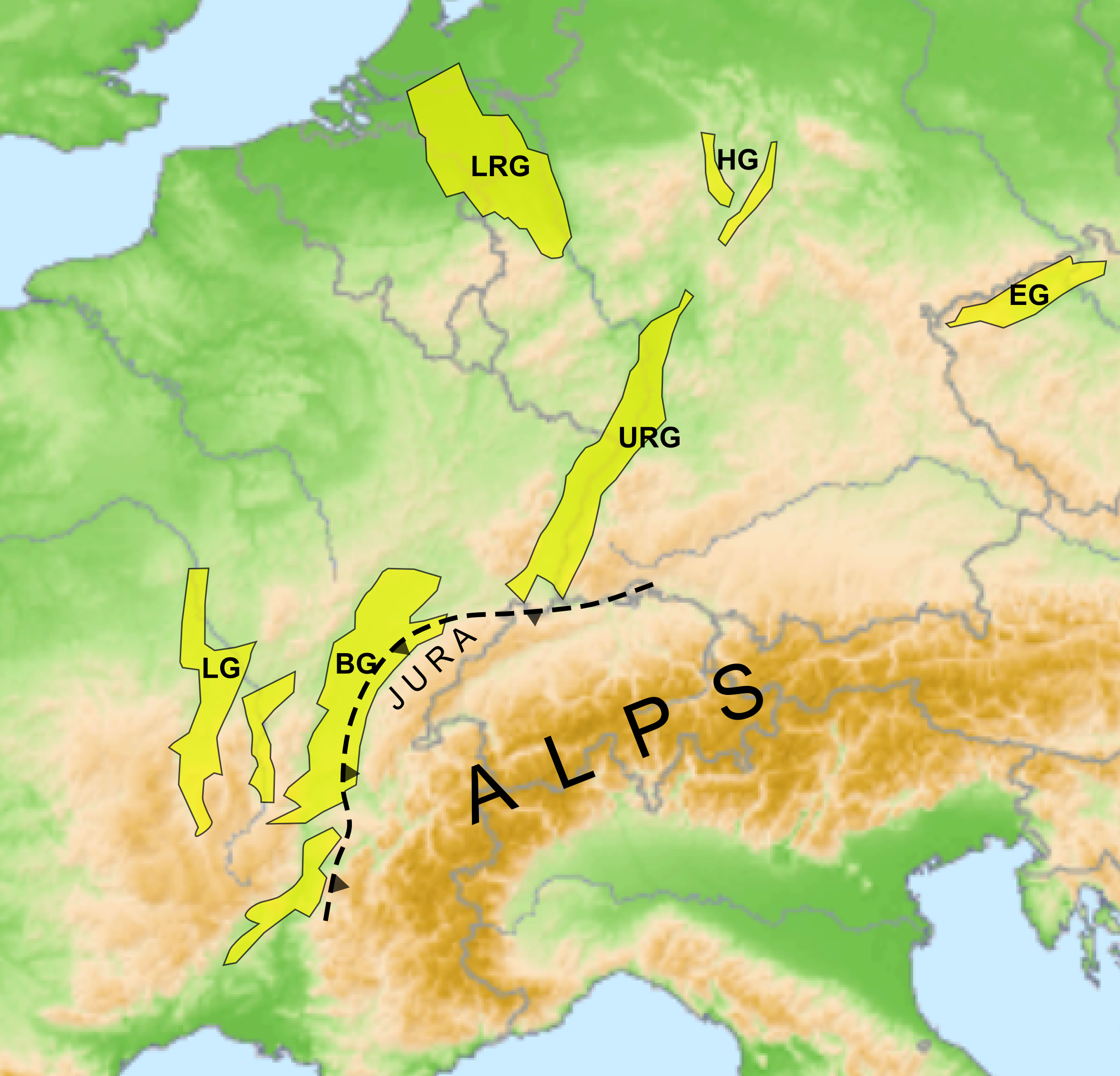 Description:Location of European Cenozoic Rift System * Source: own map, based on the Generic Mapping Tools and ETOPO2 * Author: San Jose, 2 April 2006 * Other versions: English, German, French